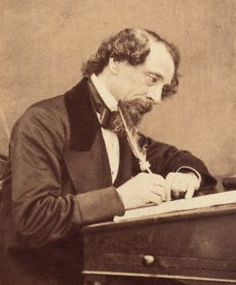 Cropped from photograph of Charles Dickens